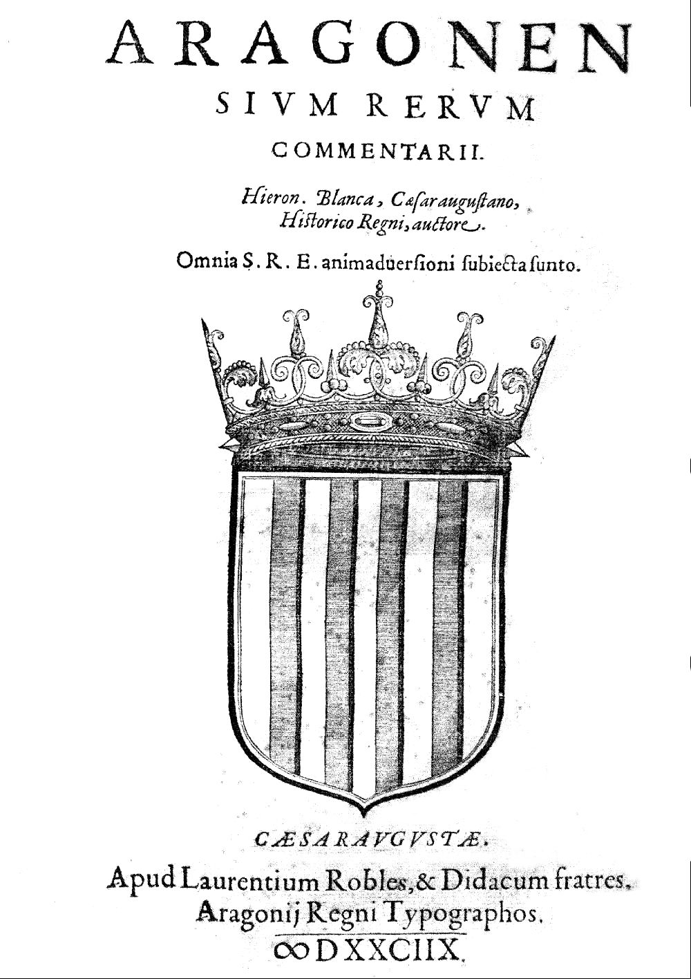 Frontispiece of Jerónimo Blancas, Aragonensium rerum comentarii, Zaragoza, printed by Lorenzo y Diego Robles, 1588.